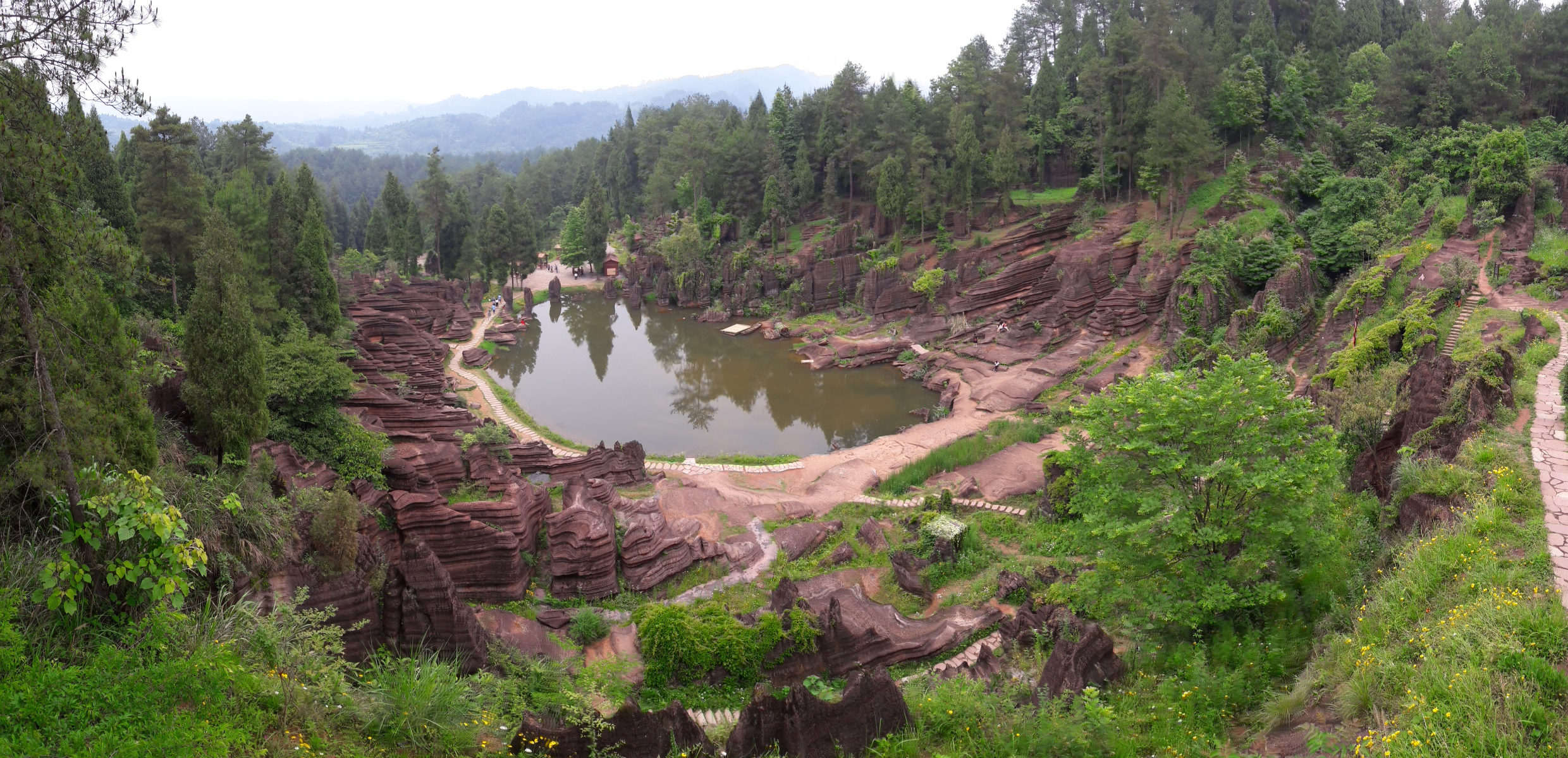 Celestial pond (天池) at Hongshilin (红石林), red stone forest, in the Hunan province, in China.